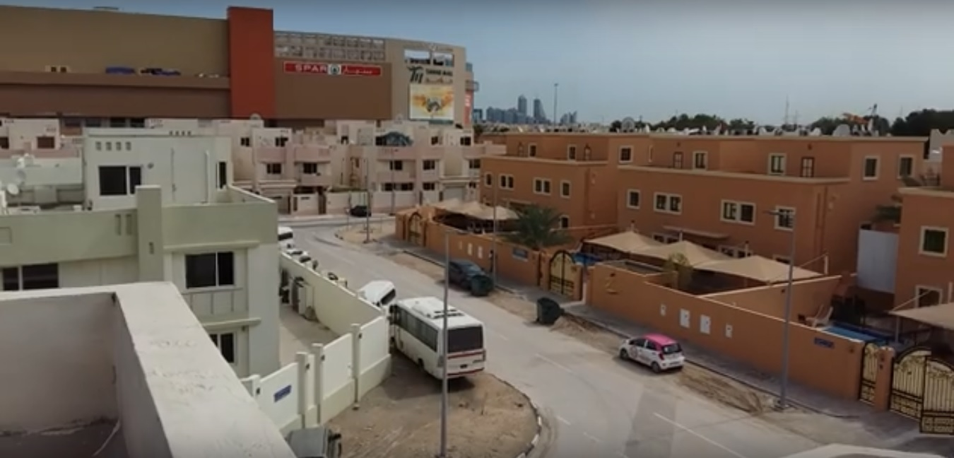 Aerial view of Tawar Mall and villas in Umm Lekhba district of Doha, Qatar.